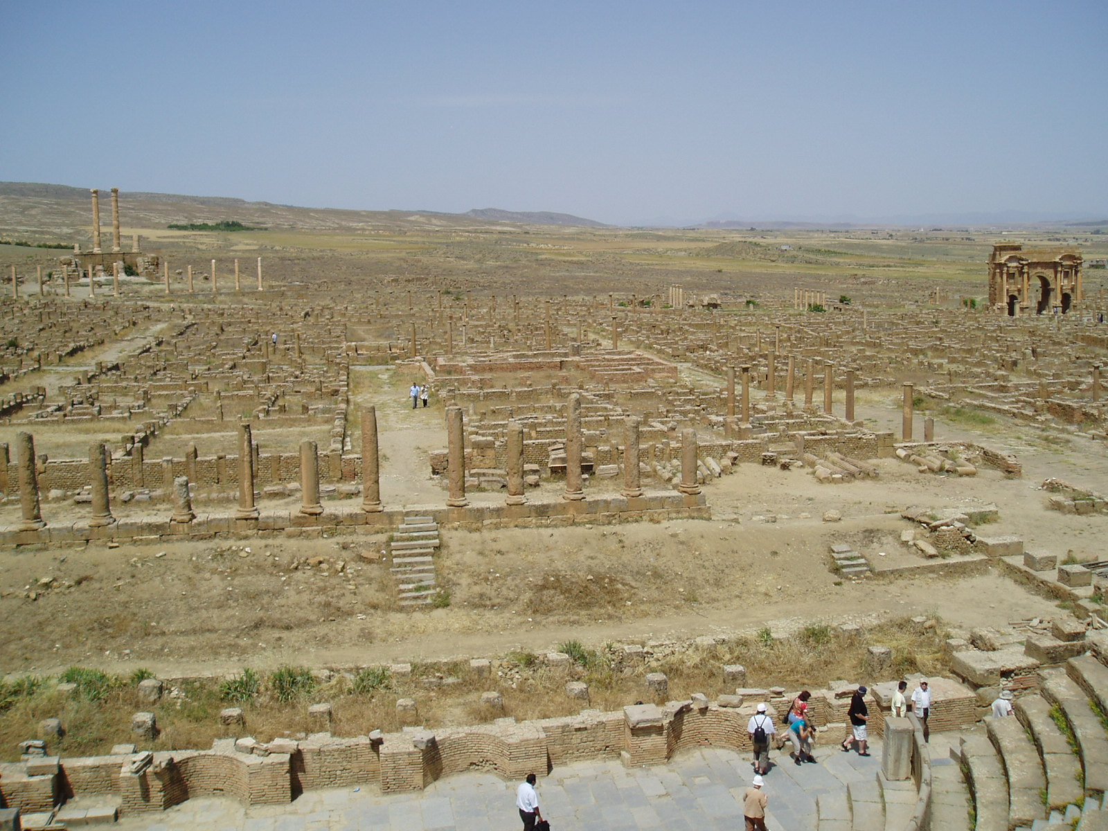 Timgad, panoramic view